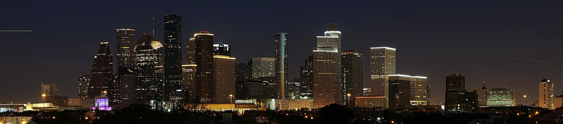 Houston skyline panorama just after sunset. The buildings were lit for the holidays. Note the streaks of light on the left and the right are actually helicopters flying around the city. The brighter streak on the left is the reason I didn't crop the left side of the photo. I think the light path adds a sense of activity to the photo.